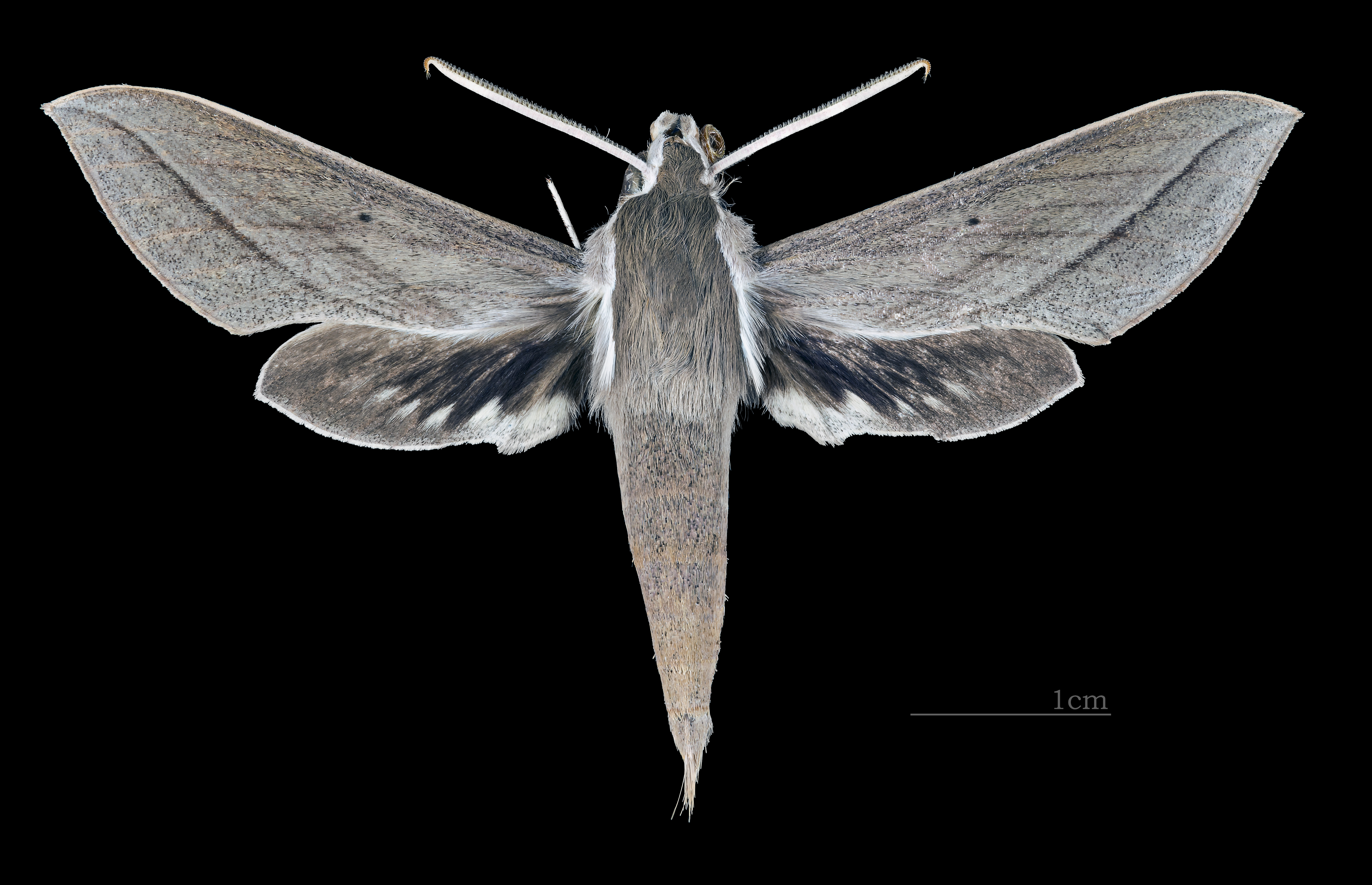 Xylophanes suana - Dorsal side Collection of the Mathematician Laurent Schwartz